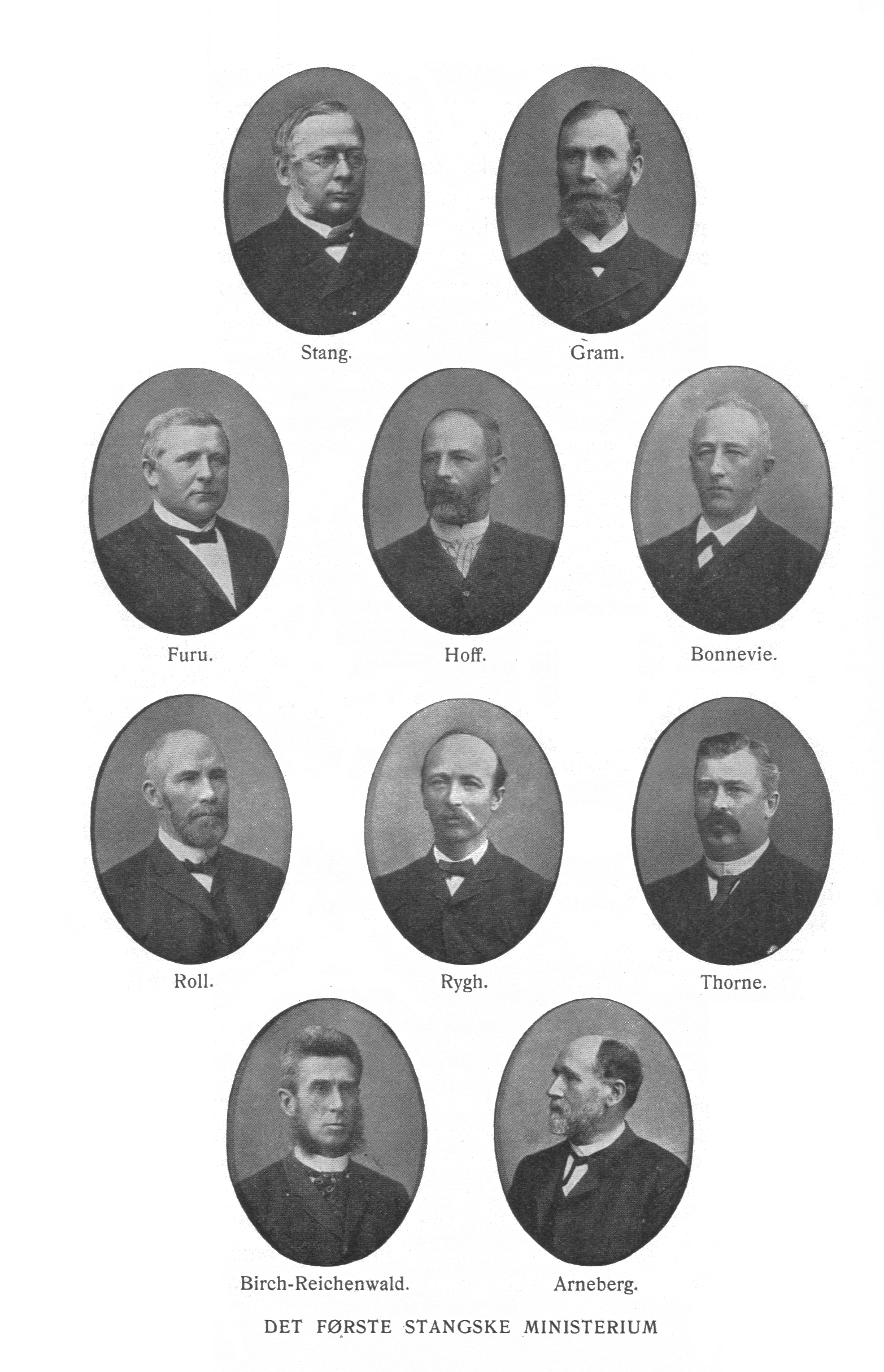 Emil Stang's first cabinet (1889–91).